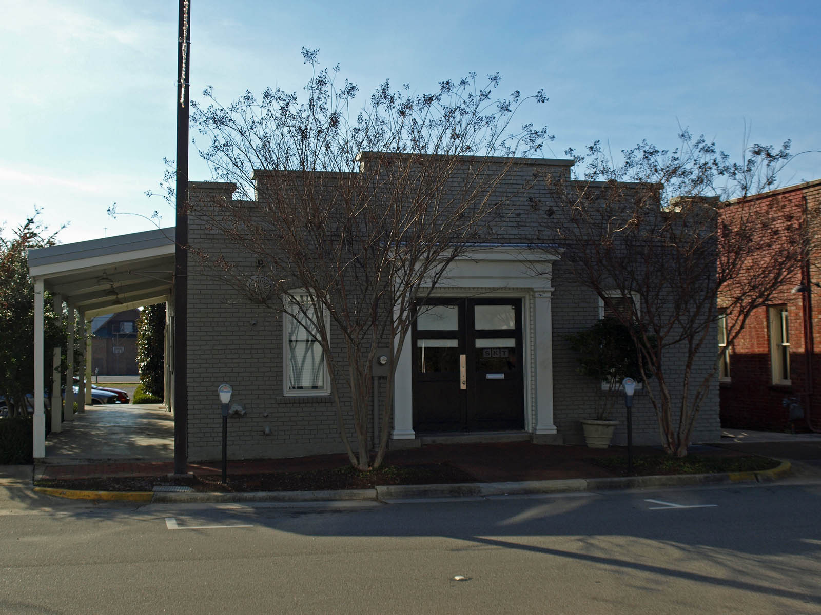 The Halsey Grocery Warehouse in Huntsville, Alabama, listed on the National Register of Historic Places.